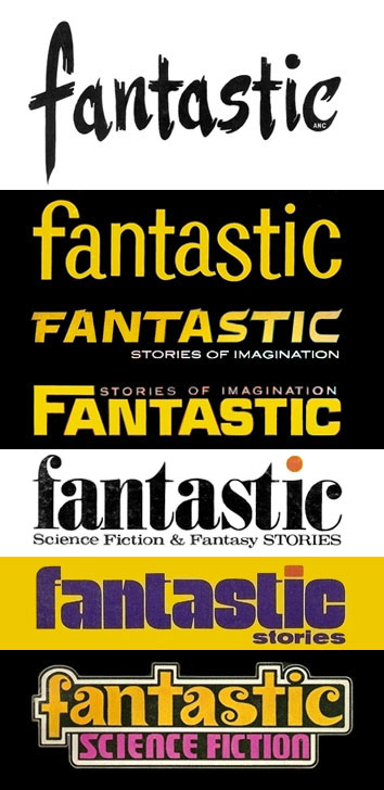 Cover banner styles clipped from images of various issues of Fantastic. Issues displayed are Summer 52, Sept/Oct 53, Jan 61, Jan 64, Jun 71, Oct 78, Apr 79.